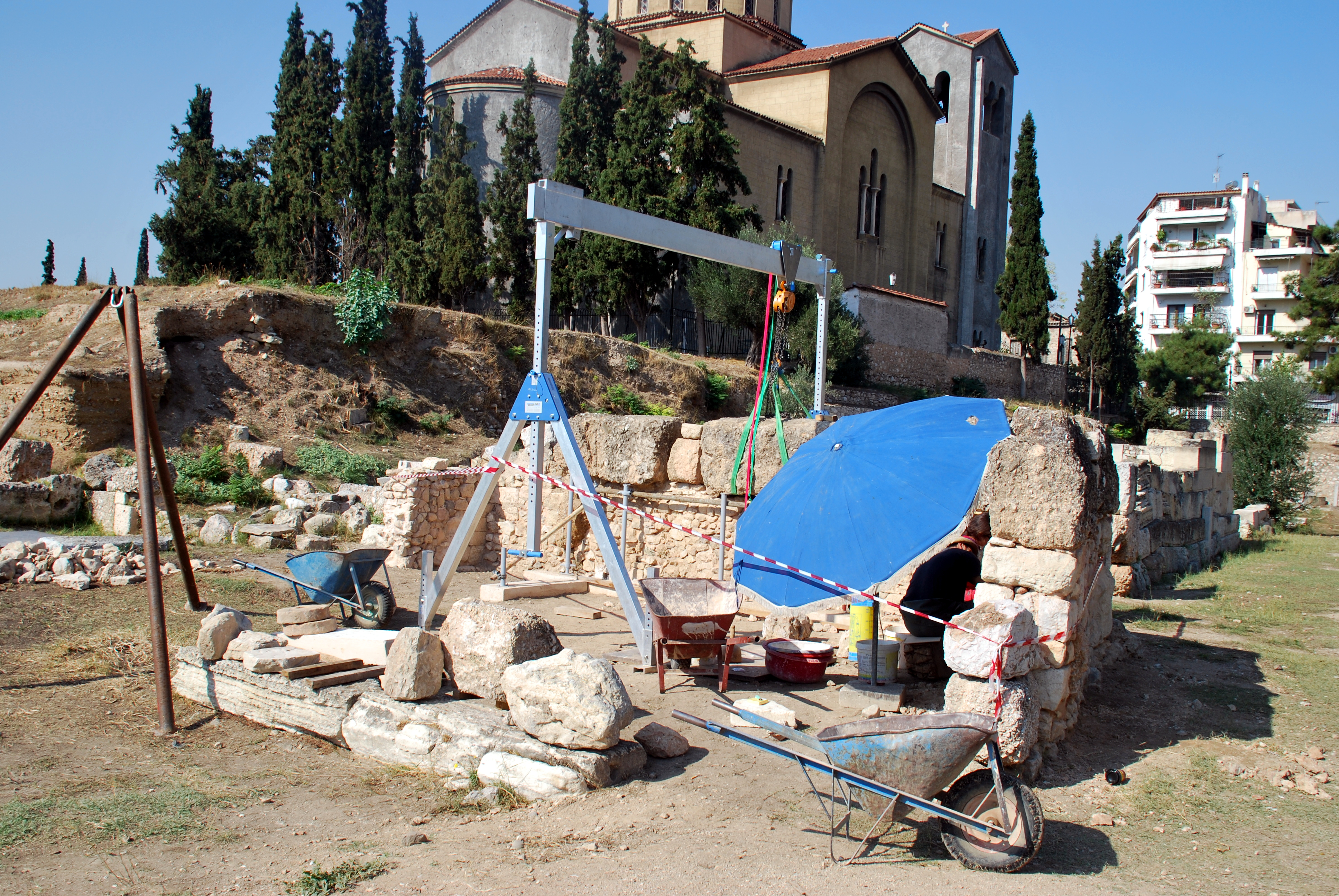 Kerameikos, Grave yard of ancient Athens. Restaurations at the Round Bath.